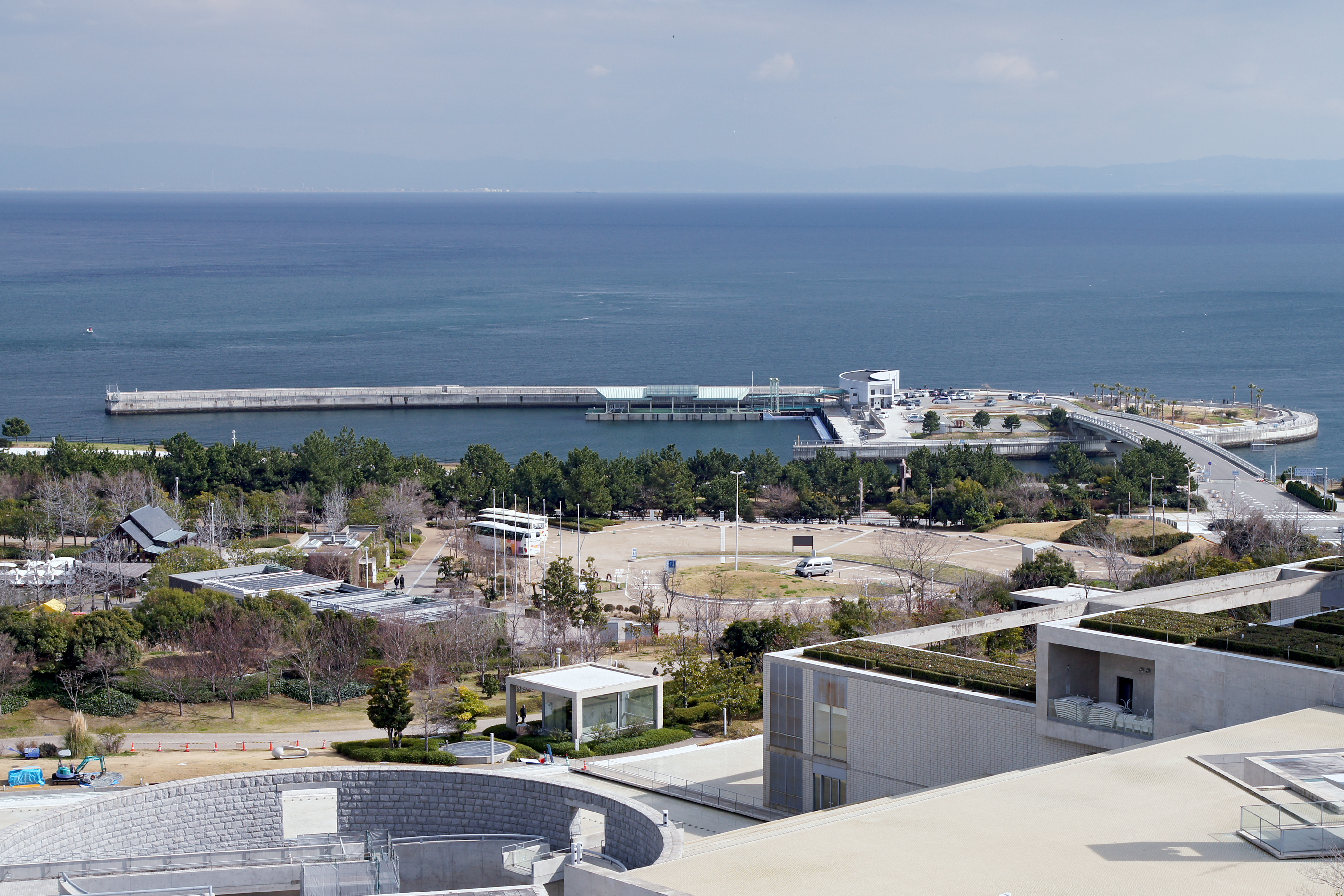 Awaji exchange station sea port wing in Awaji, Hyogo prefecture, Japan